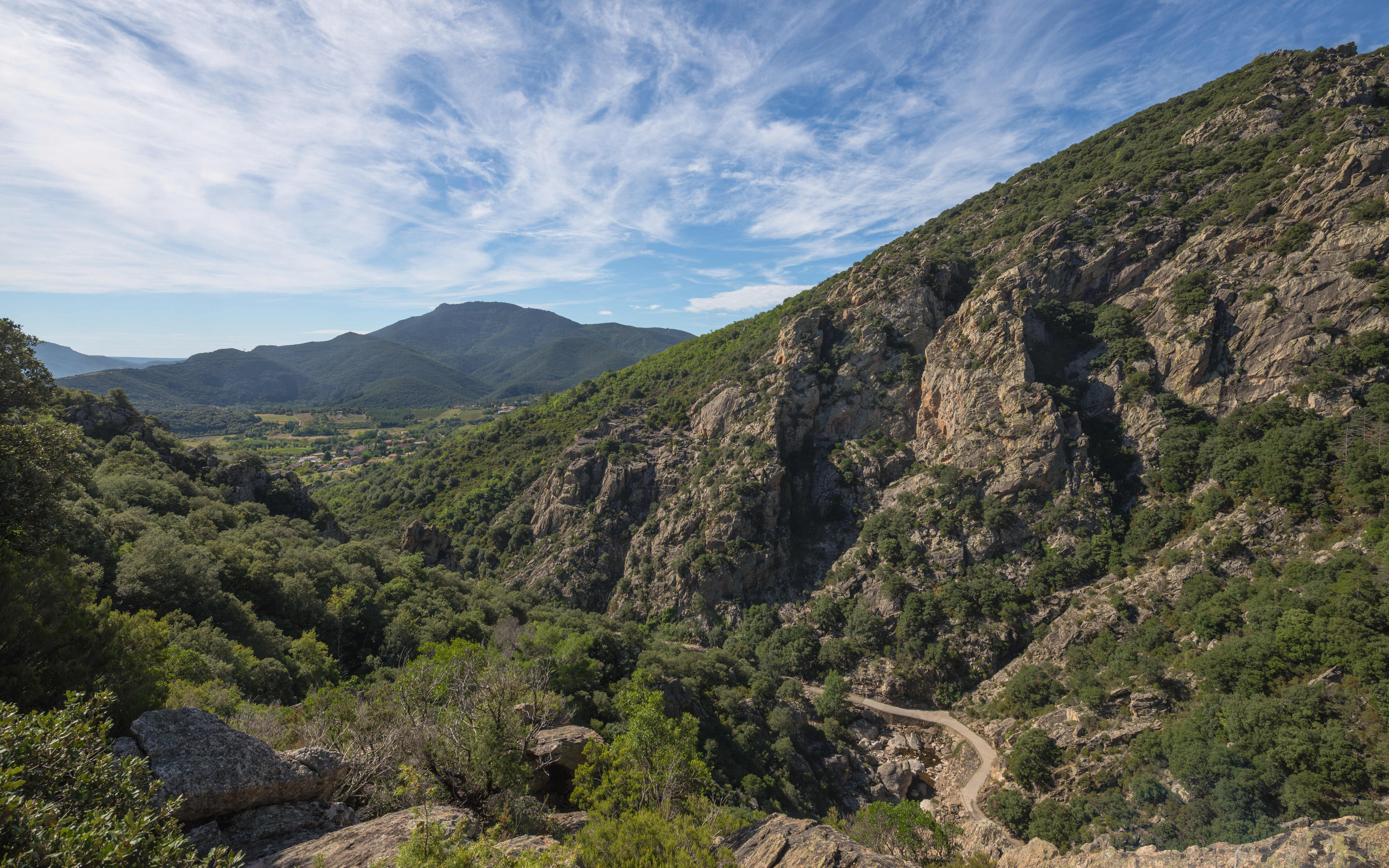 The Southern end of the Gorges d'Héric, at above on the right the Pas du Cabalet (543m), below in the foreground the Ruisseau d'Héric, in the background in the left the Jaur Valley and behind it the Mont Naudech (753m). Mons, Hérault, France. Haut-Languedoc Regional Natural Park.